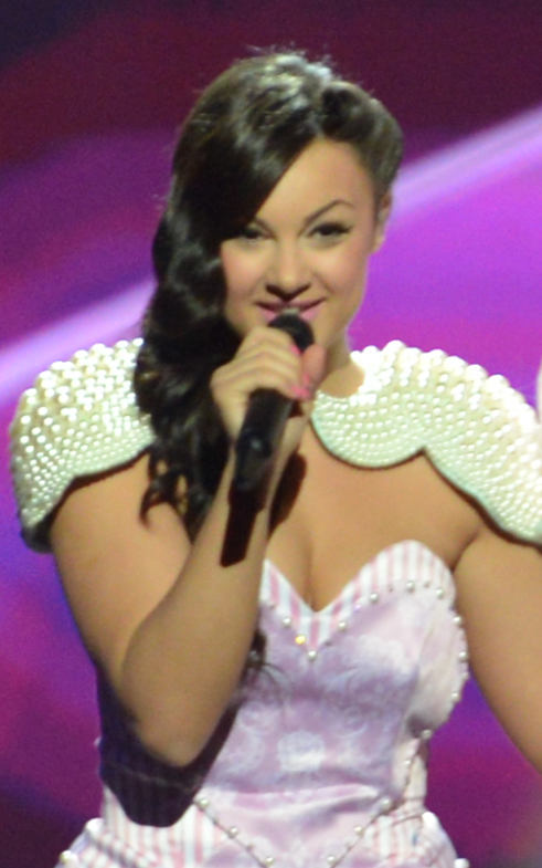 Moje 3 representing Serbia with the song "Ljubav je svuda" during the first dress rehearsal of the first semi final of the Eurovision Song Contest 2013 Malmö. (Help translate this text)